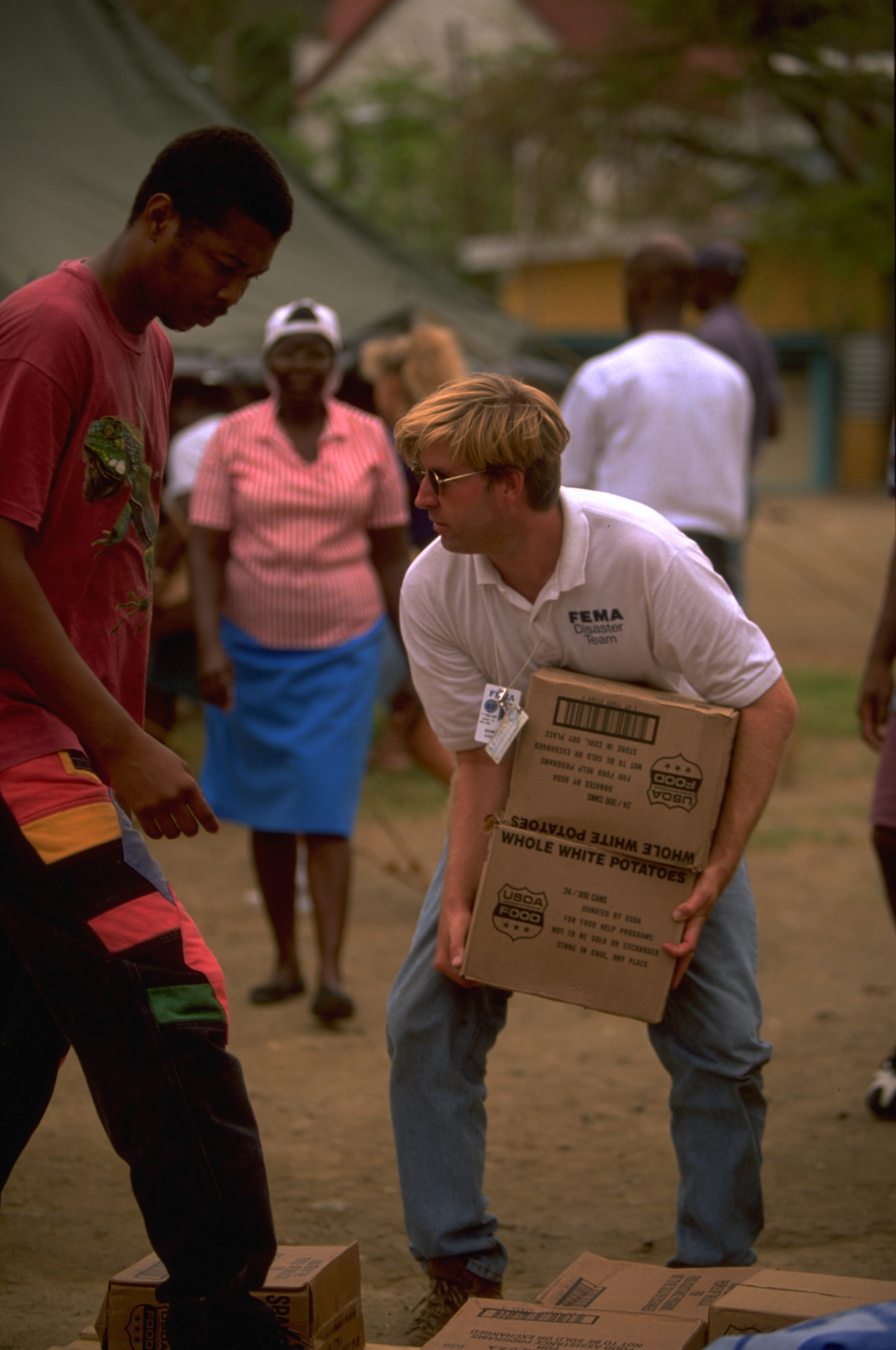 FEMA provides food, water, clothing, and temporary housing for those people who were affected by the hurricane. Eight people died and more than $2 billion in property damage was caused by Hurricane Marilyn.